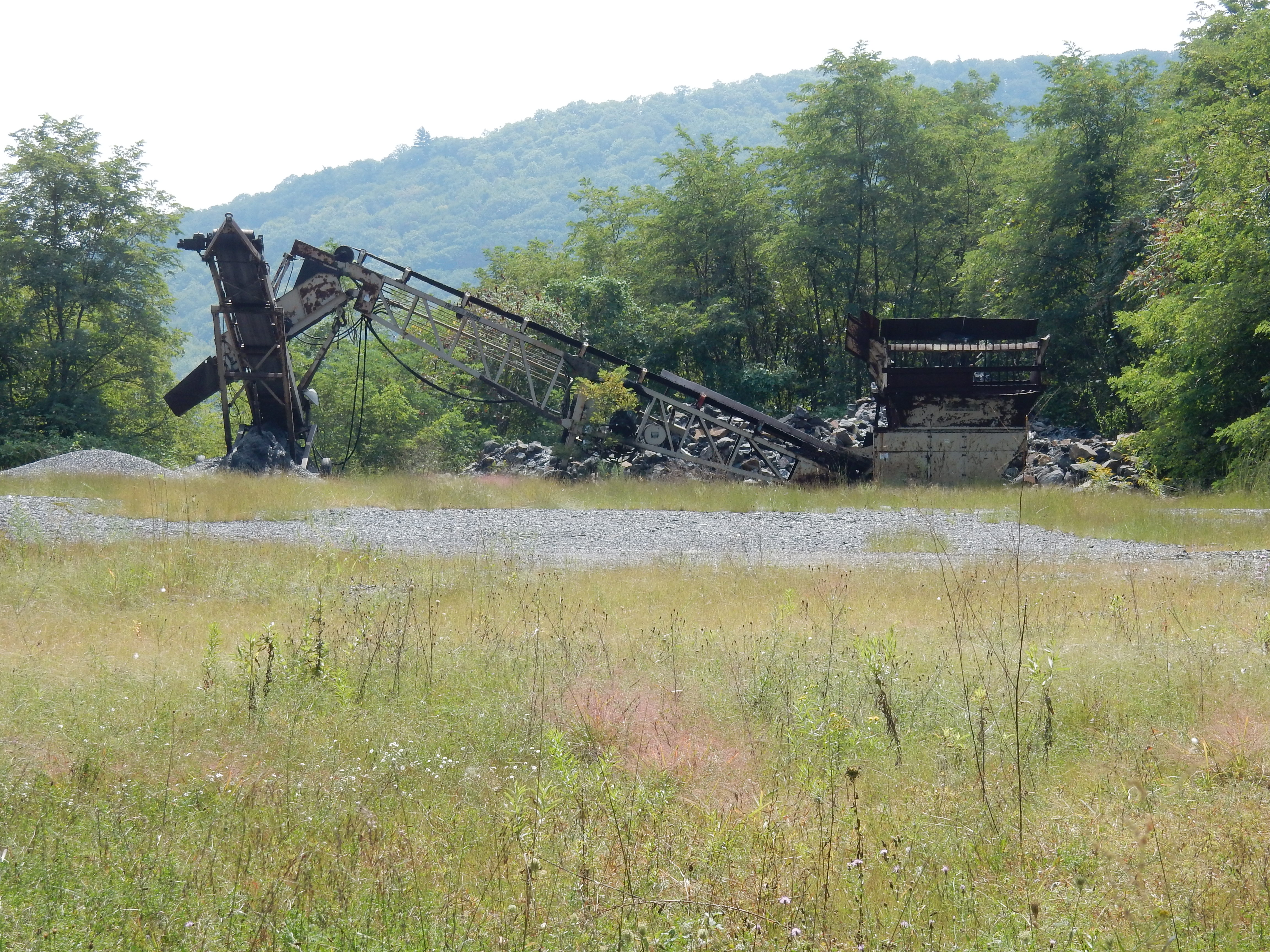 Meadowbrook Coal Co. on Molleystown Rd., Tremont Township, Schuylkill County, Pennsylvania.